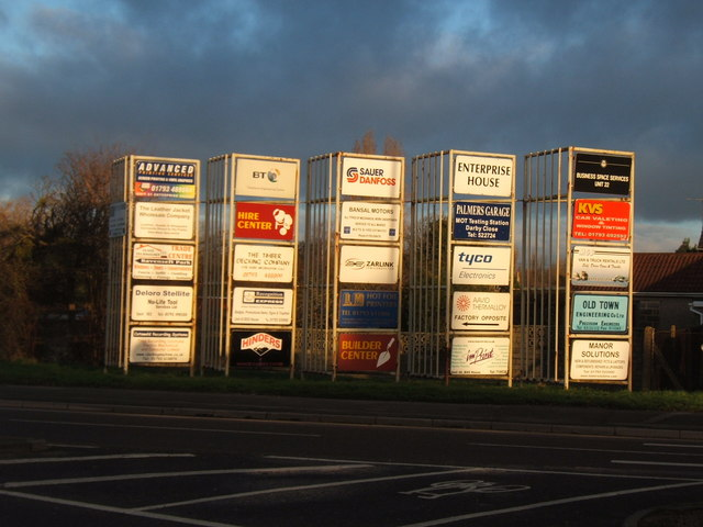 Advertising hoarding at Cheney Manor These signs denote the entrance to Cheney Manor Industrial Estate.